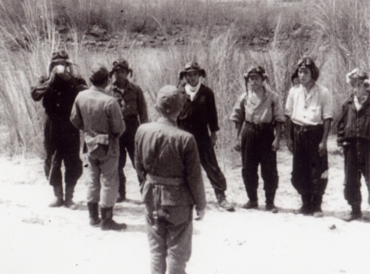 The photograph shows the men of the first actual Kamikaze unit to make an attack on a US ship. The men are being offerred a ceremonial toast of water as a farewell. Yukio Seki, the leader of the first kamikaze unit, is shown with a cup in his hands, and Vice Admiral Takijiro Onishi, who organized the first kamikaze unit, is in the middle of the photo facing the five men of the Shikishima Unit. The man offering the cup is Seki's officer, Asaiki Tamai.